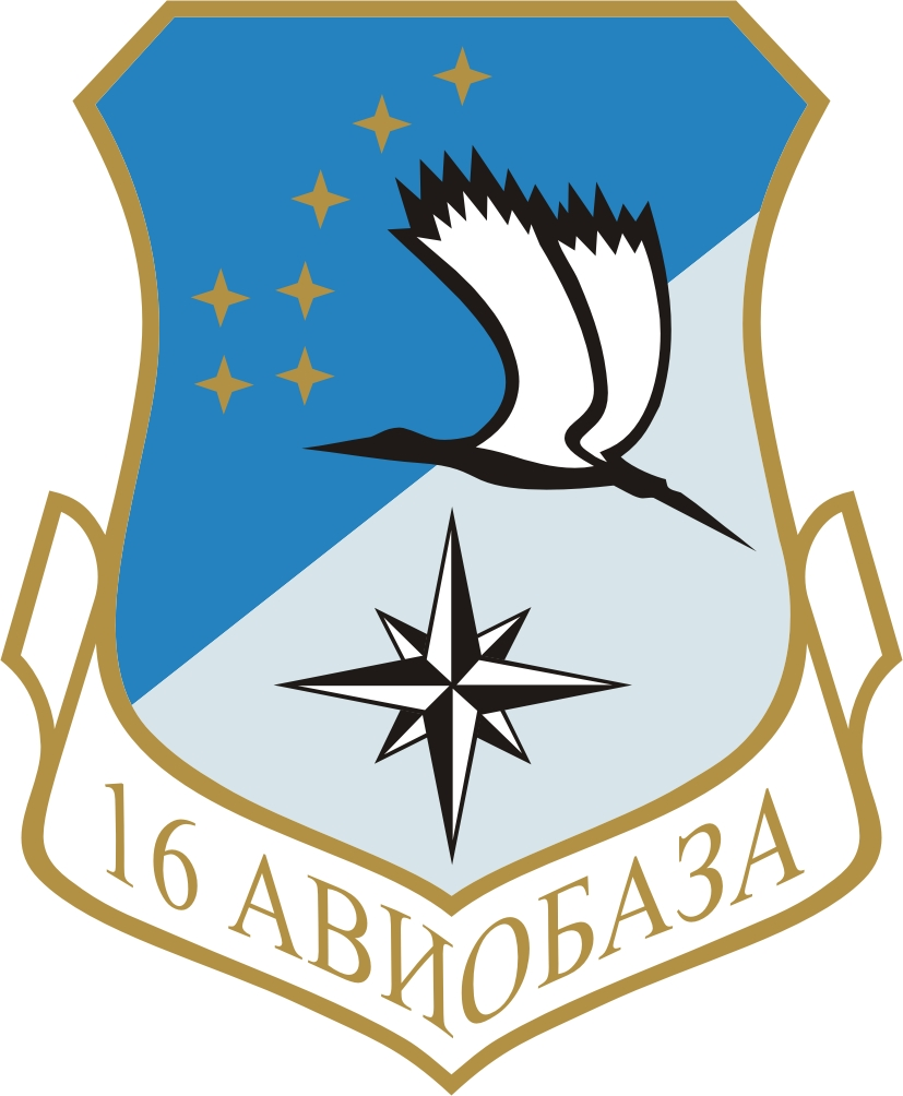 Logo of 16th Transport Air Base (Vrazhdebna)